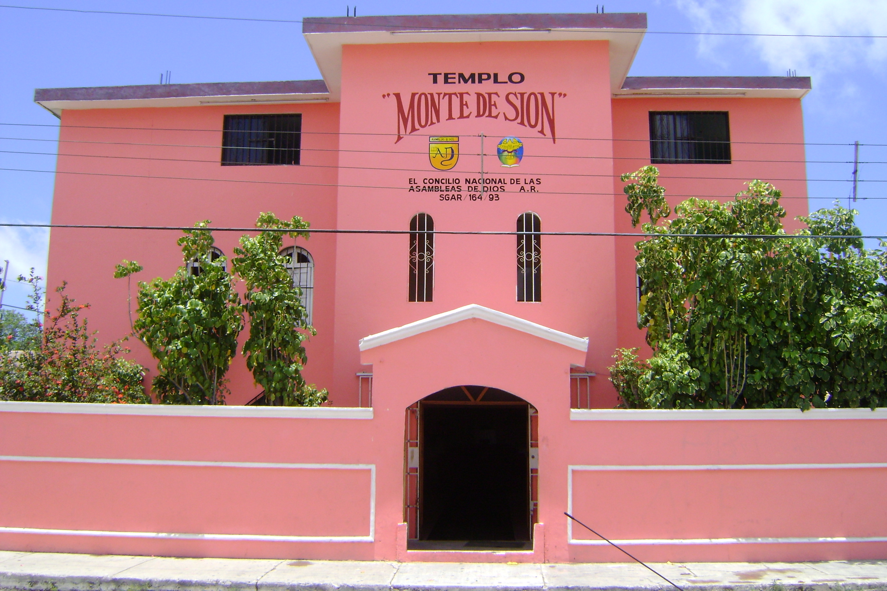 The photo is the First Assembly of God Templo Monte de Sion in Cancun City, Mexico, of the National Council of Assemblies of God.